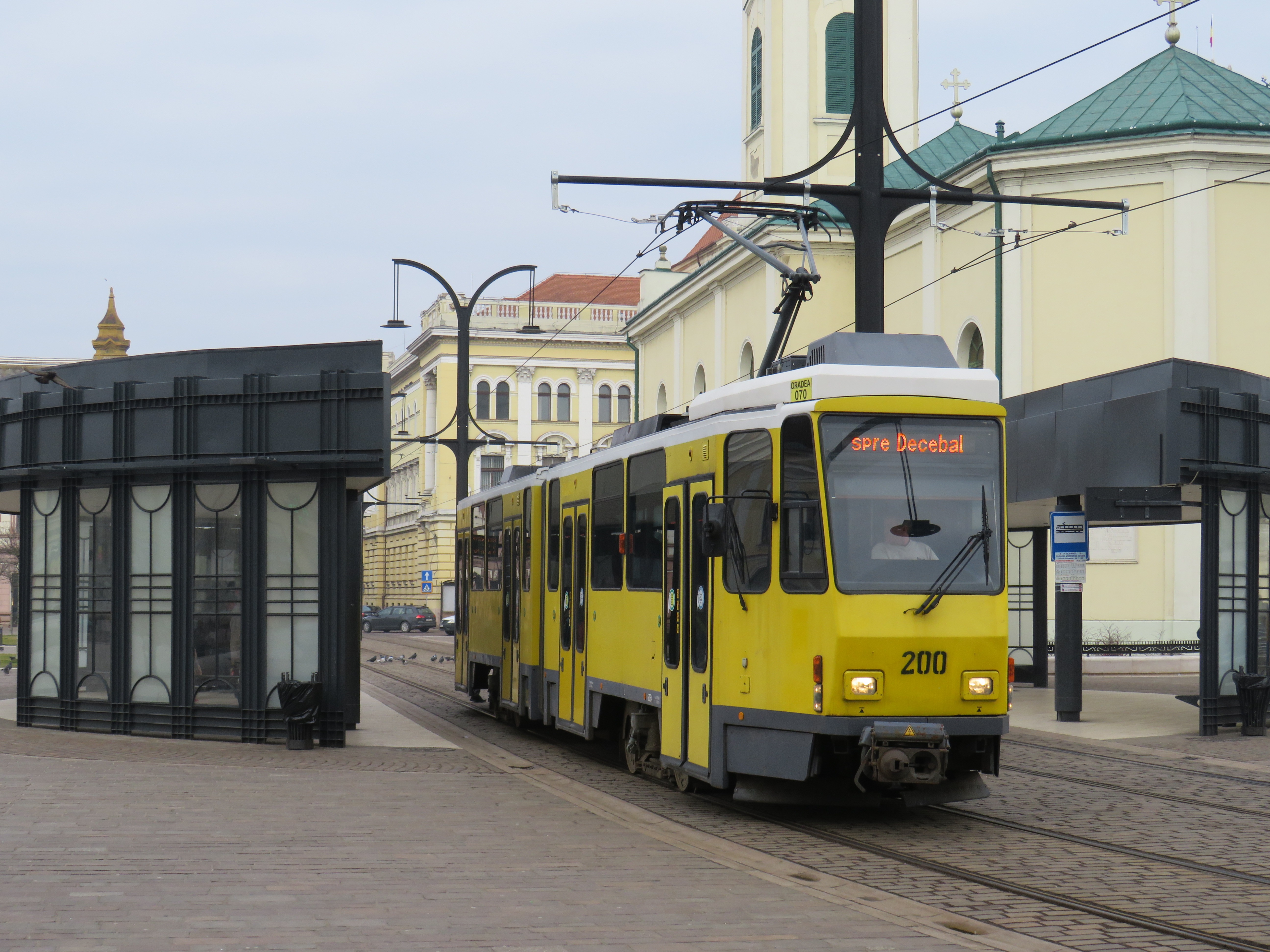 Ex Berlin tram KT4D in Oradea, Romania